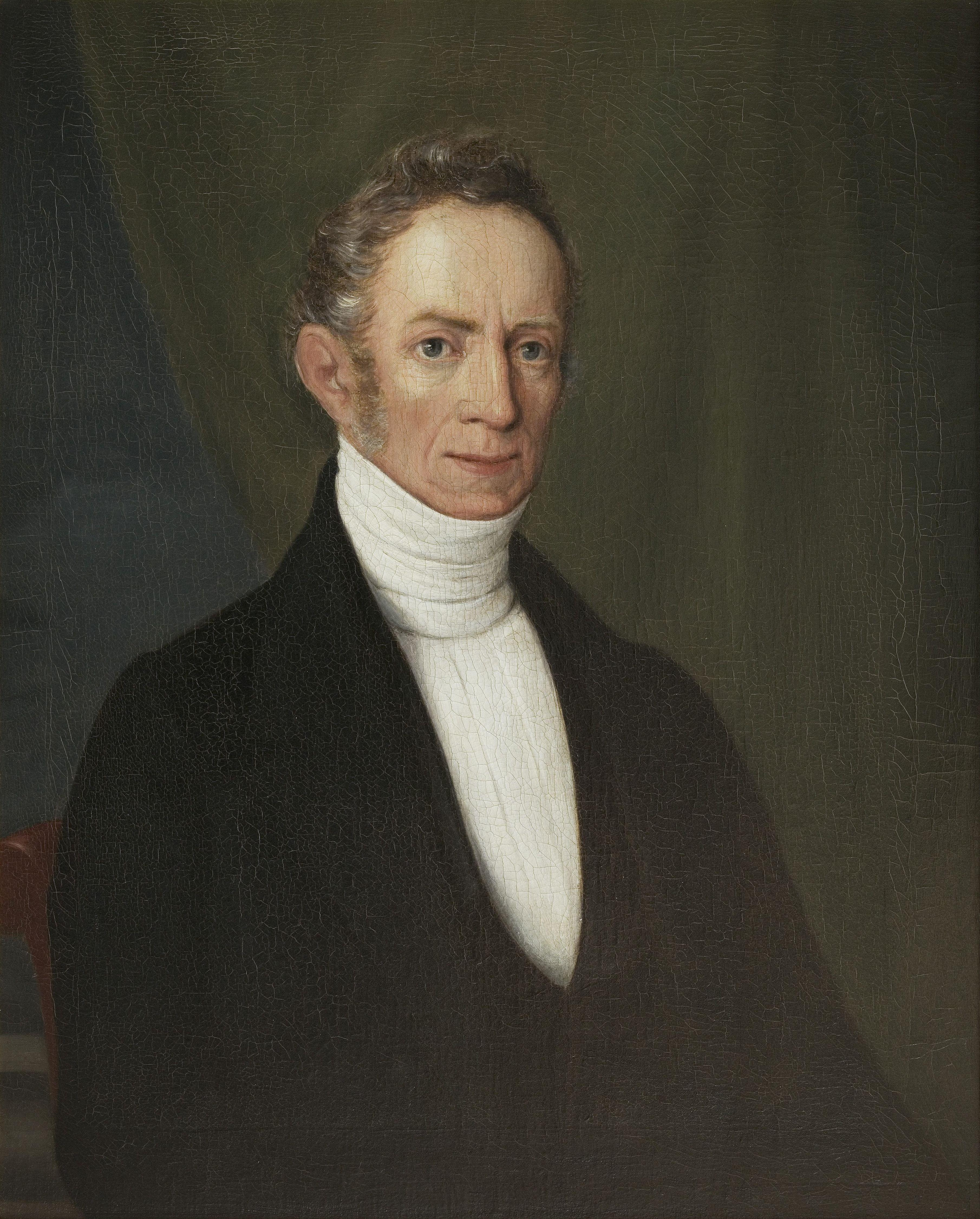 Steven ten Cate, former mayor of Sneek. Oil painting.